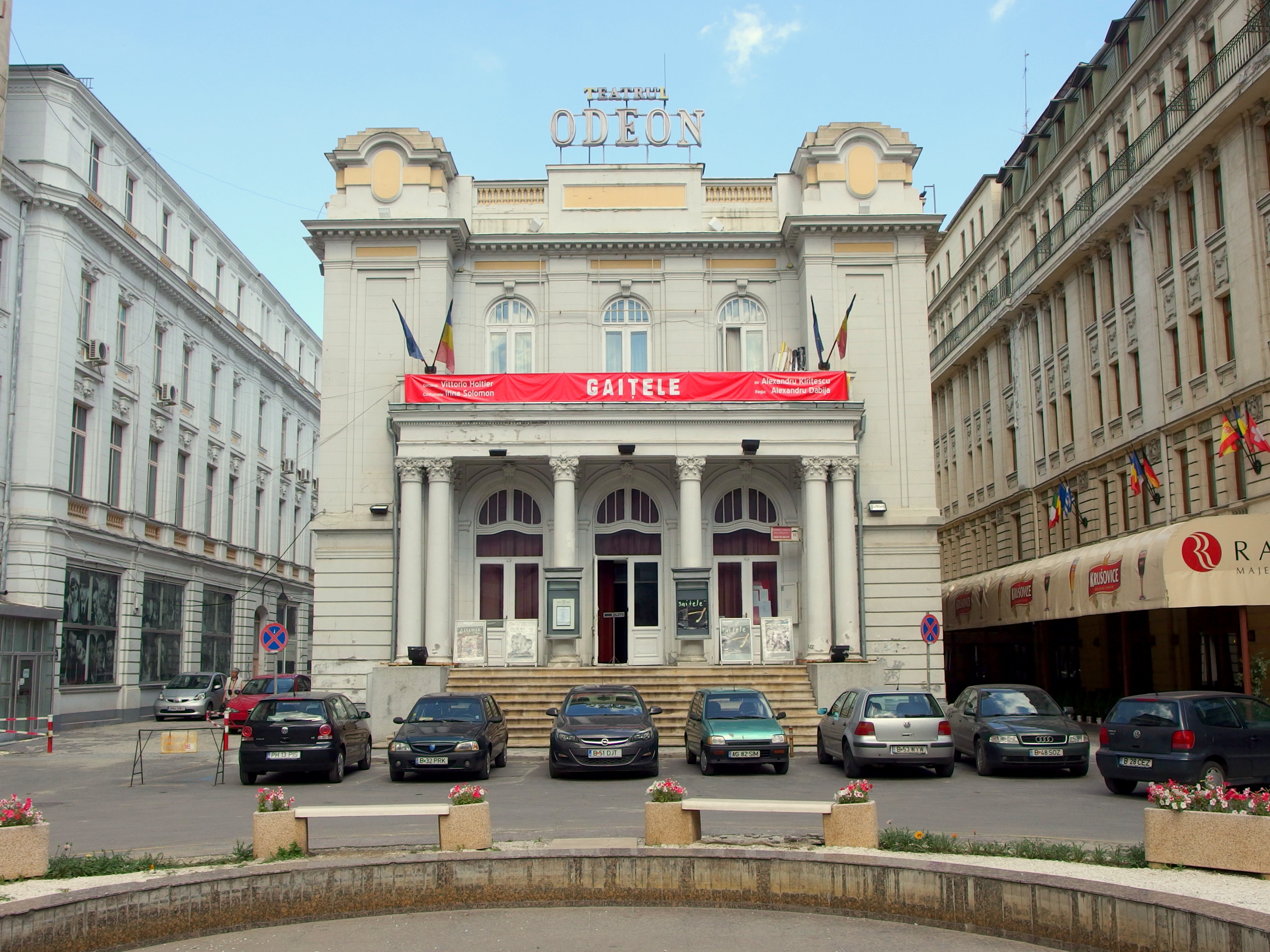 2014-07-02 in Bucureşti.